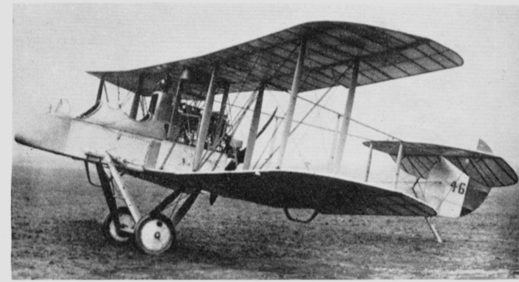 This photograph is over 90 years old It is of a service aircraft, and was taken during the 1914-1918 war - at a time when all photography of service aircraft except by service personnel on official duty was strictly forbidden. There is therefore a strong legal presumption that any original copyright belonged to the British Crown - which copyright has long expired. It has been published many times in various source during the past ninety years.